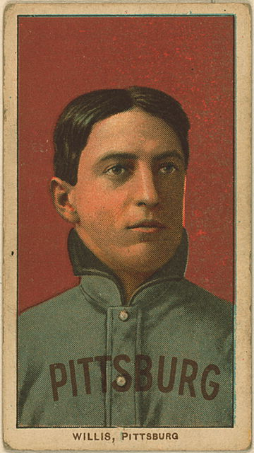 Vic Willis baseball card